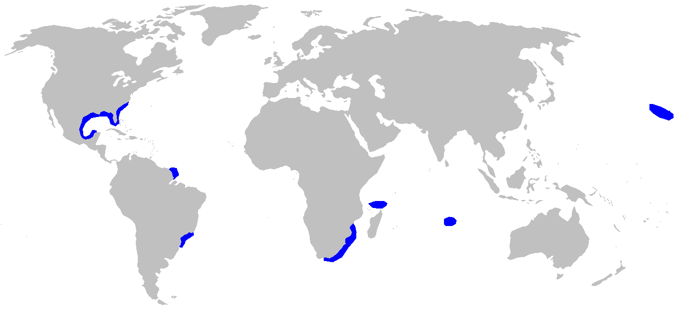 Distribution map for Cirrhigaleus asper